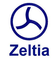 zeltia logo